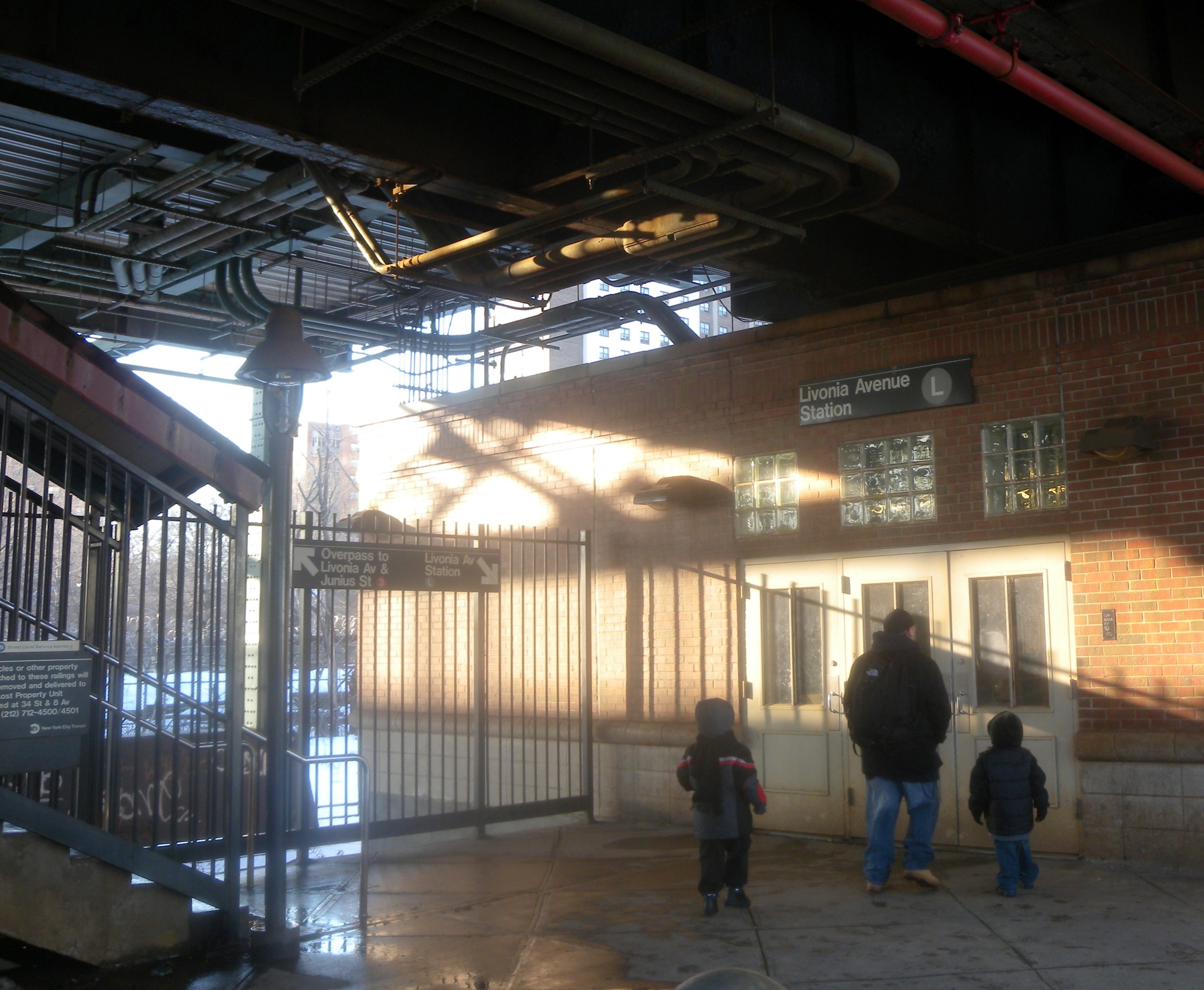 Looking northwest at ground level token booth of Livonia BMT station on a sunny afternoon.